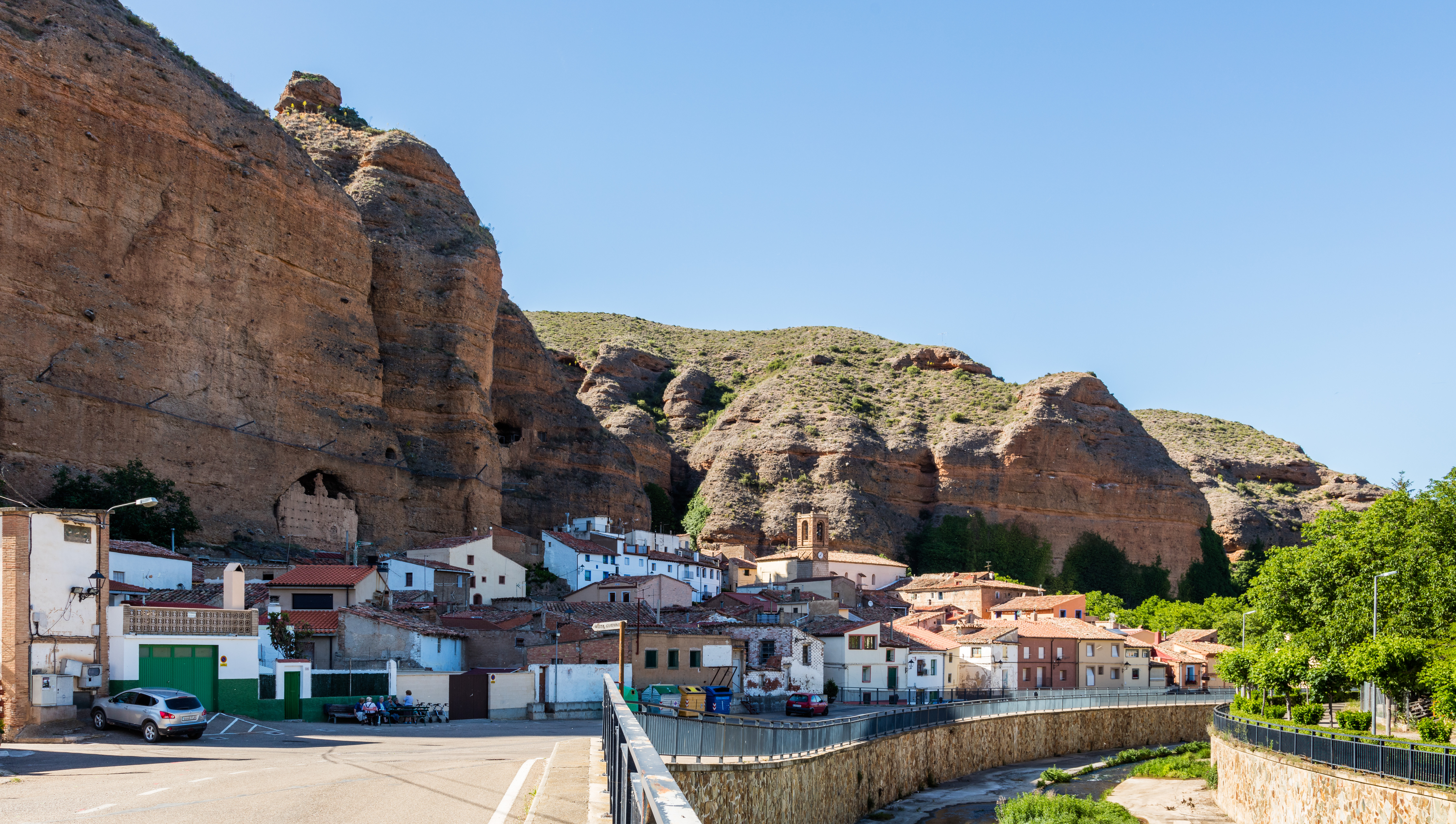 Los Fayos, Zaragoza, Spain